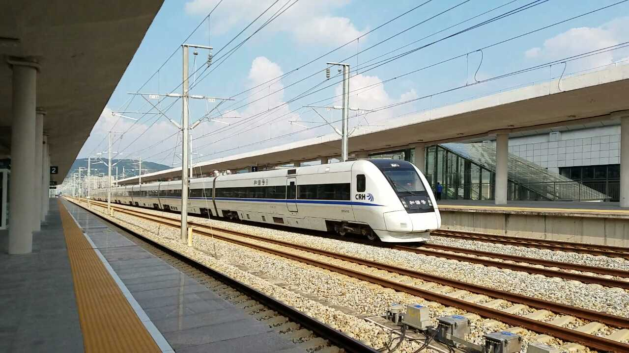 D687 is a train schedule running from Xiamen North to Shenzhen North, via Jiaomei, Zhangpu, Zhao'an, Chaoshan, Puning, Lufeng, and Huizhou South. The train uses a single CRH1A trainset staffed by Guangzhou Railway (Group) Corp., CRH1A-1142 in the photograph shown.